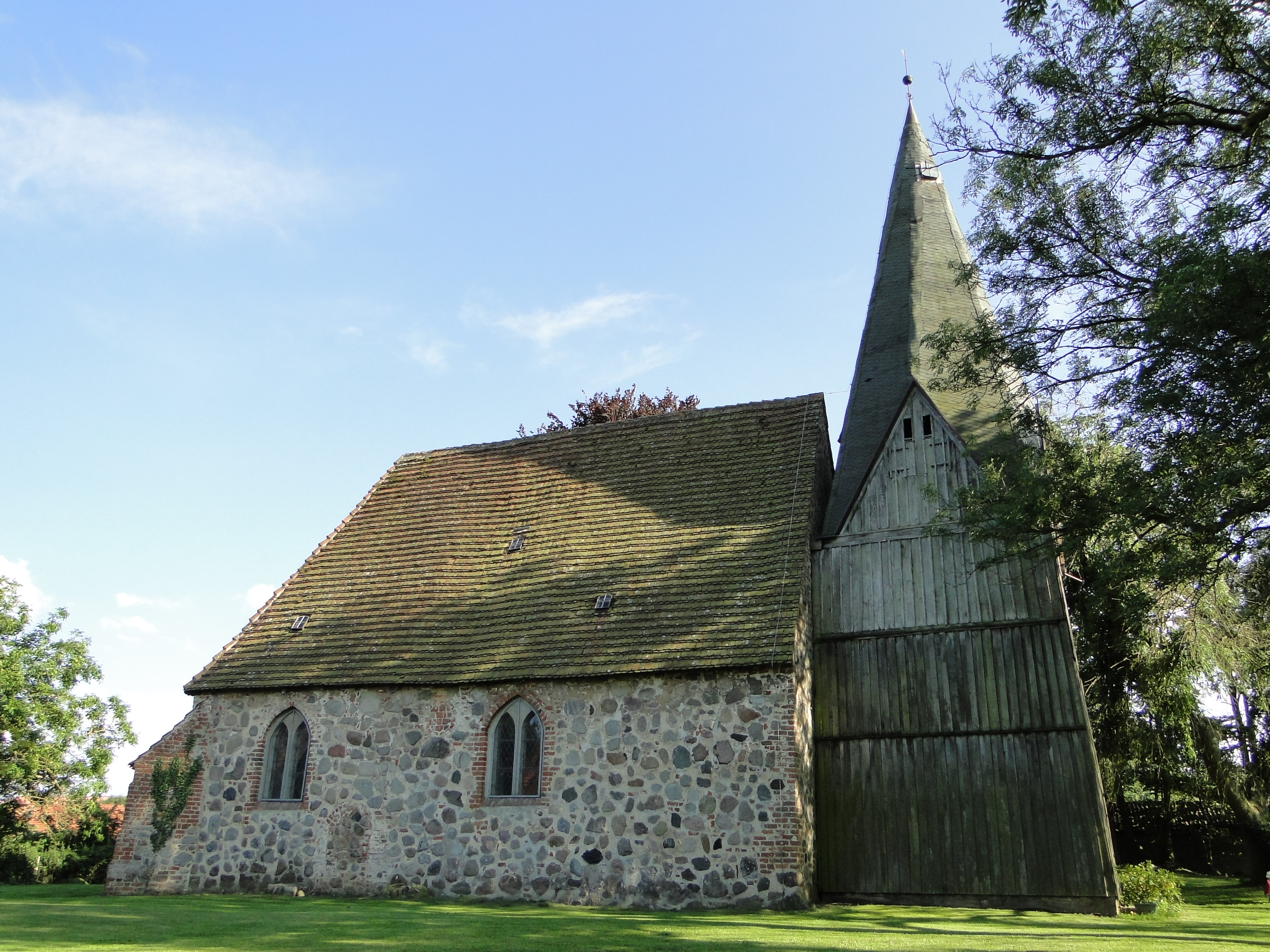 Church in Below, district Ludwigslust-Parchim, Mecklenburg-Vorpommern, Germany